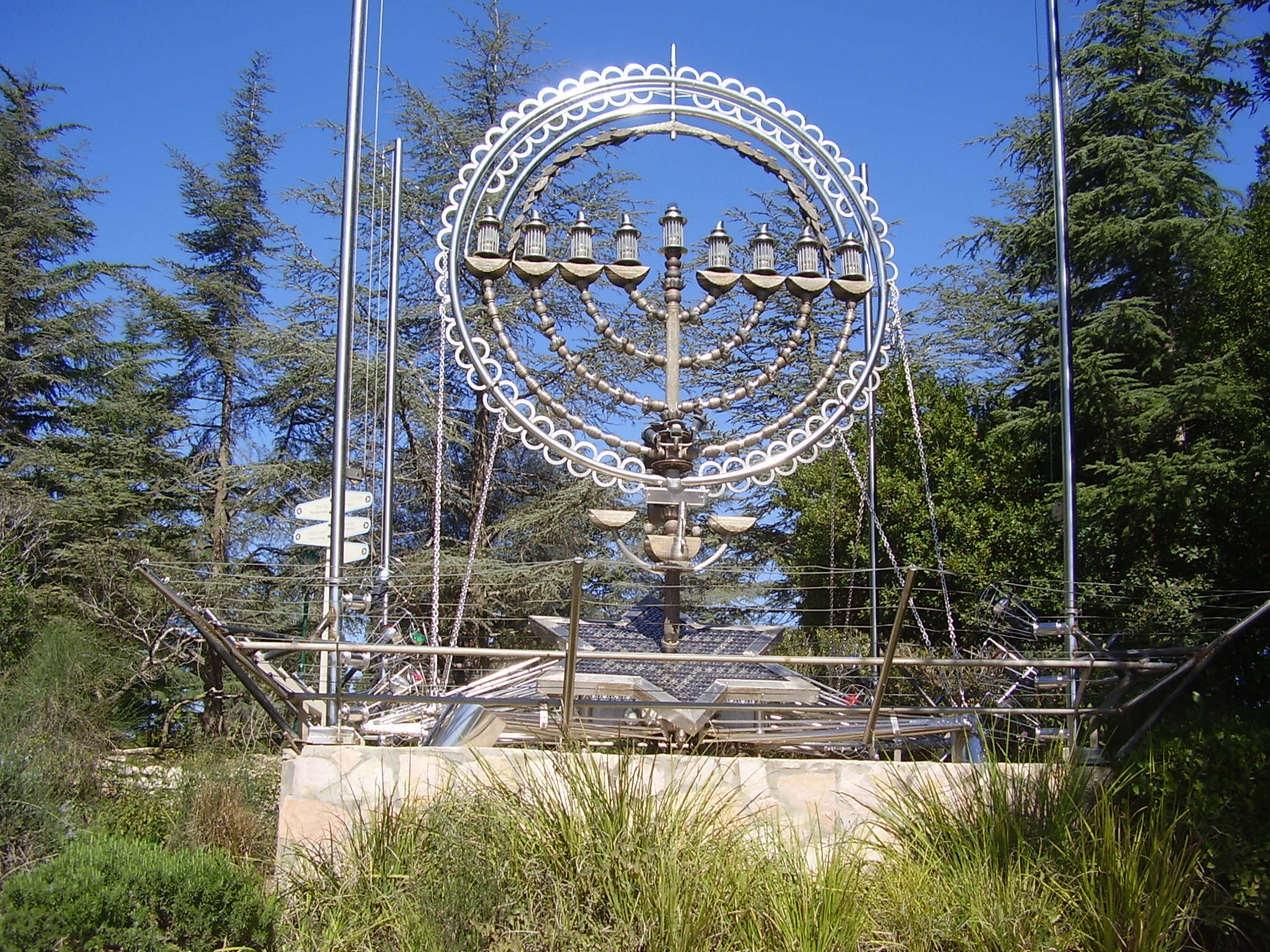 menorah sculpture at mount herzl